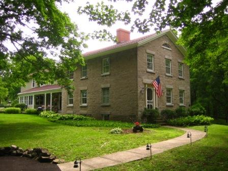 Community Place, a historic farmhouse at 680 Sheldon Road, Skaneateles, New York, south of the hamlet of Skaneateles Falls. A sign at property in 2009 identifies it as "Frog Pond".